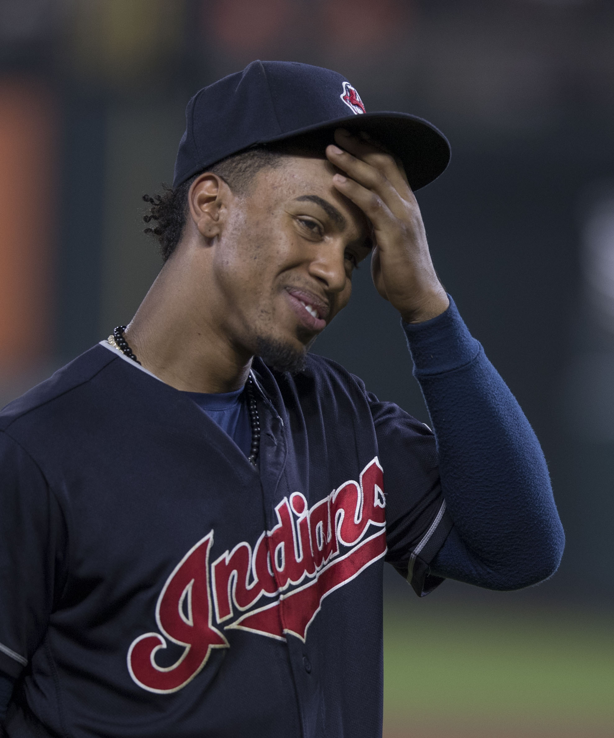 Indians at Orioles 6/22/17